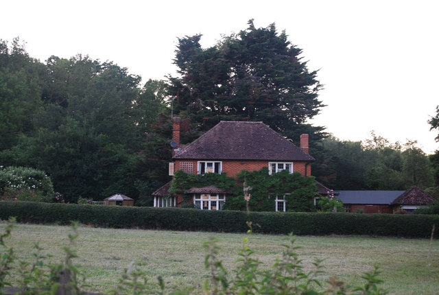 Sevenacre Cottage, Mill Lane